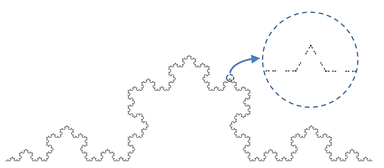 A paradoxal fractal curve that demonstrates that fractal dimension and aspect are not related. This Koch-looking curve has the fractal dimension of the triadic Cantor set. Starting from the Koch method, after a few iterations its construction continues using the triadic Cantor set method.